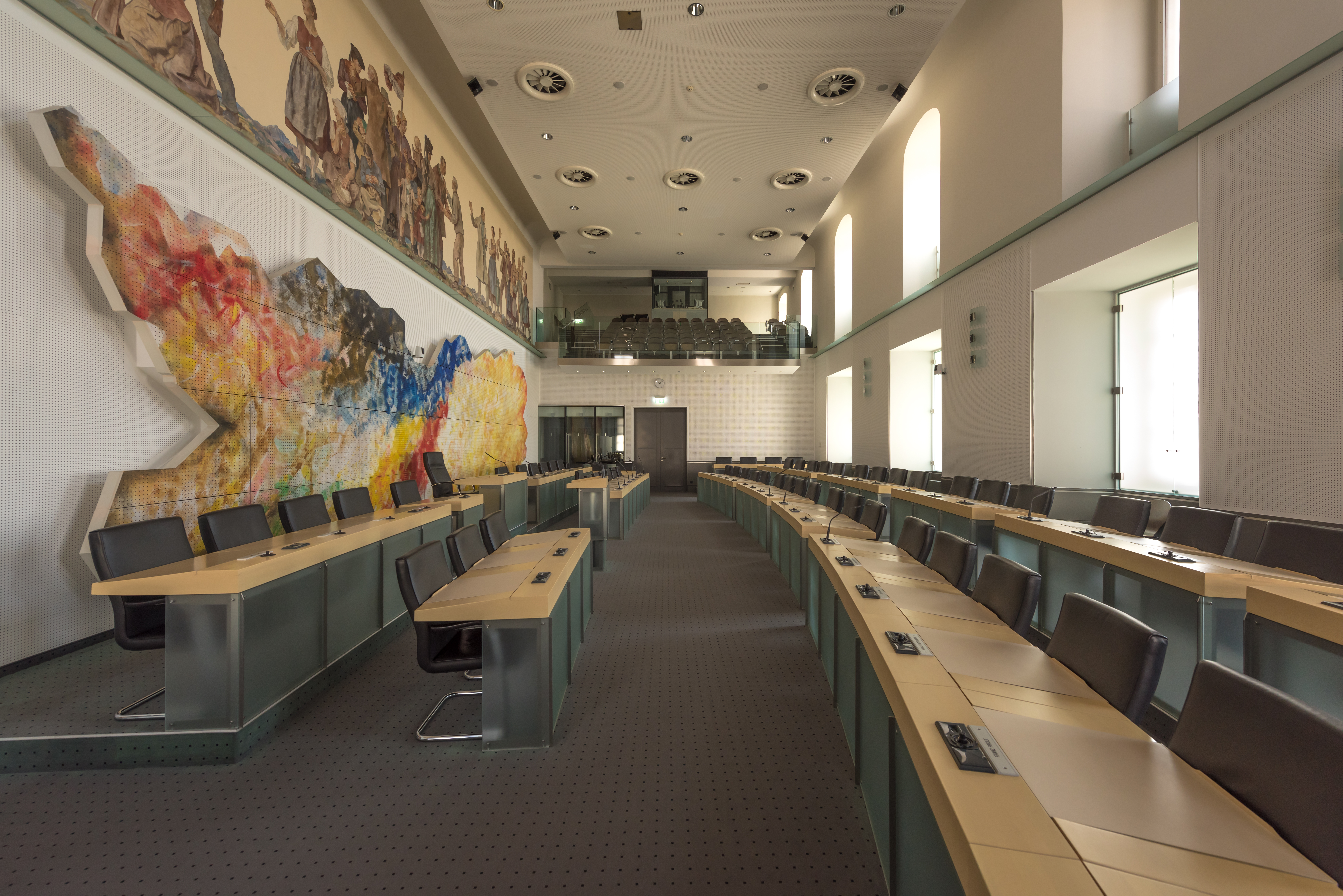 Council chamber of the Landhaus, statutary city Klagenfurt, district Feldkirchen, Carinthia, Austria, EU